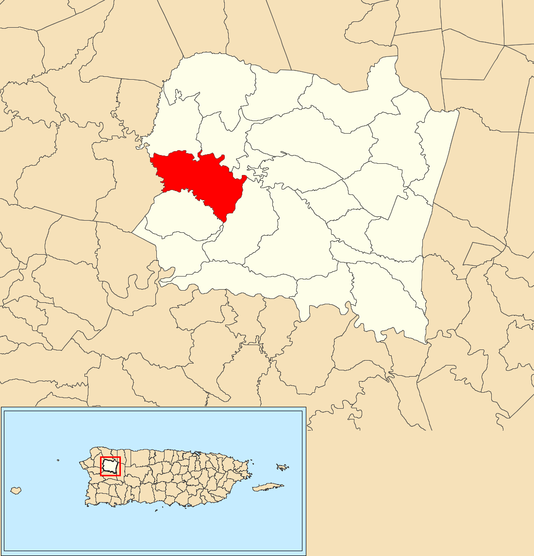 Pozas, San Sebastián, Puerto Rico locator map